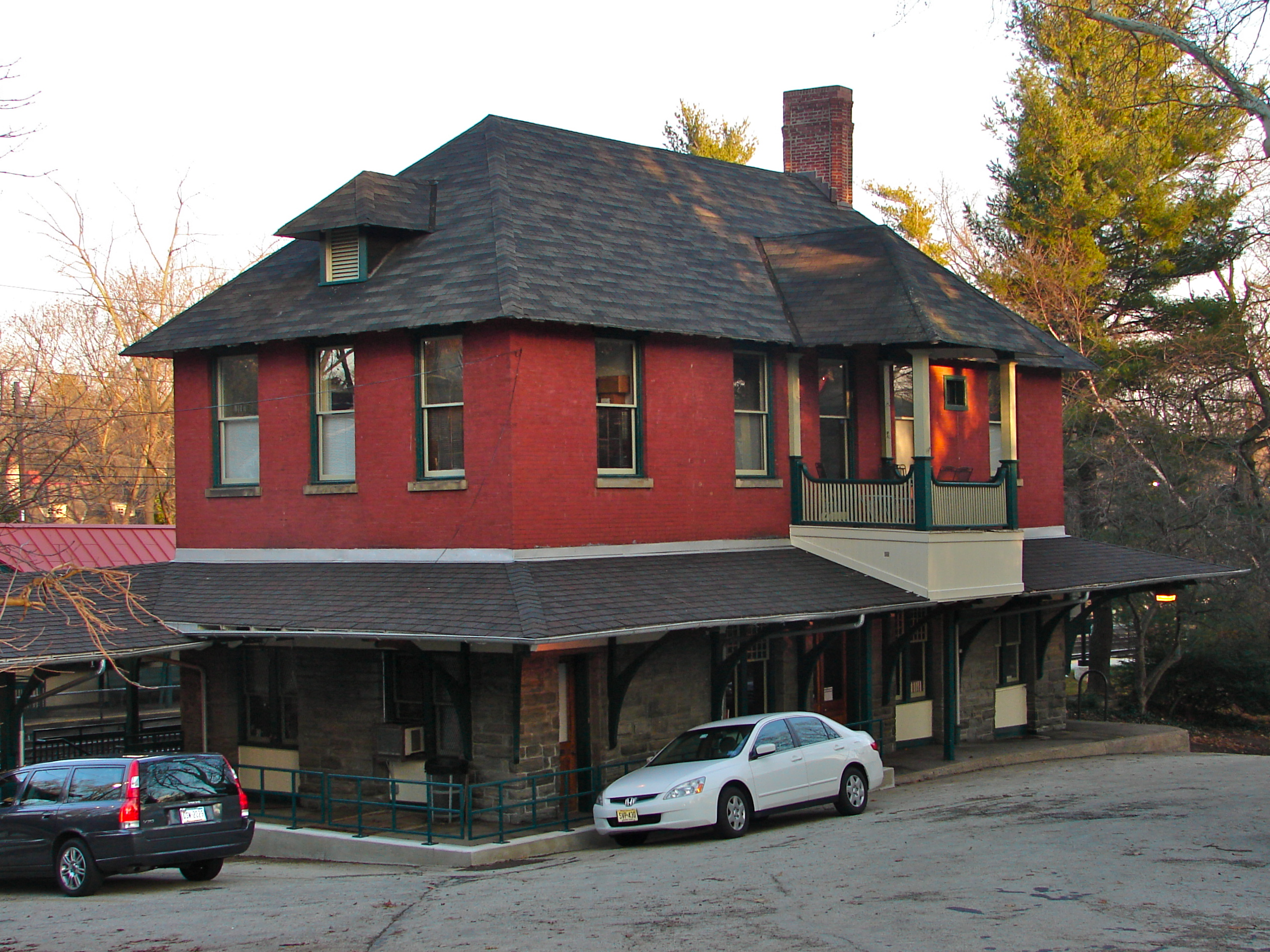 St. Martin's SEPTA station in the Chestnut Hill Historic District on the NRHP, in Chestnut Hill, Philadelphia, Pennsylvania. One of the most solid stations along this line.